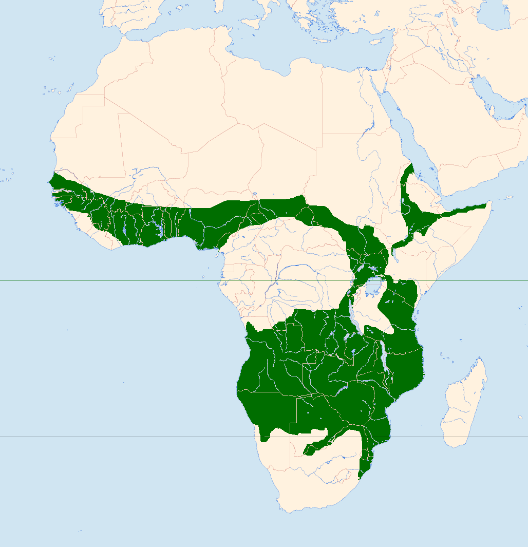 Range Map of the African Hawk Eagle